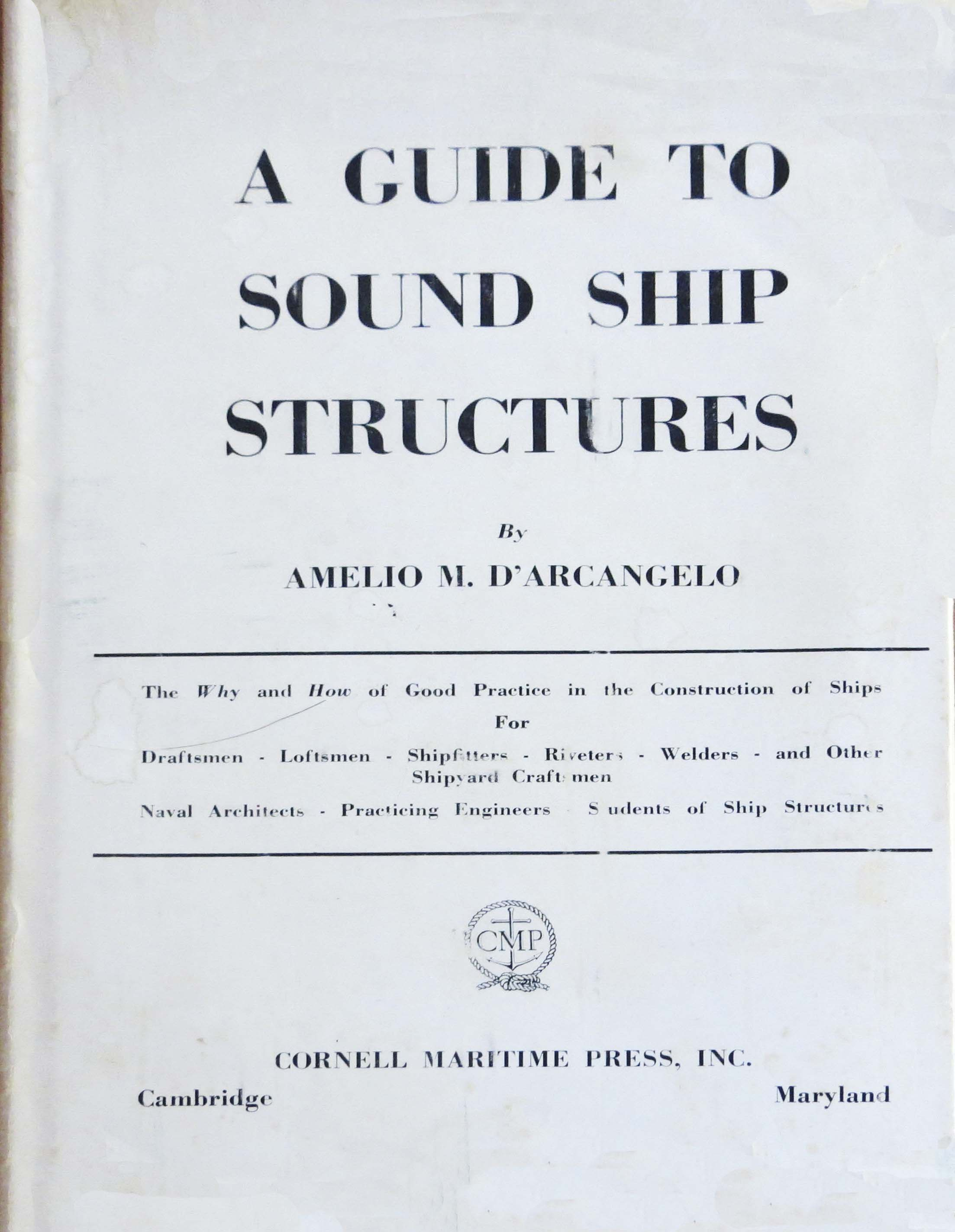 Book Cover "A guide to Sound Ship Structures"